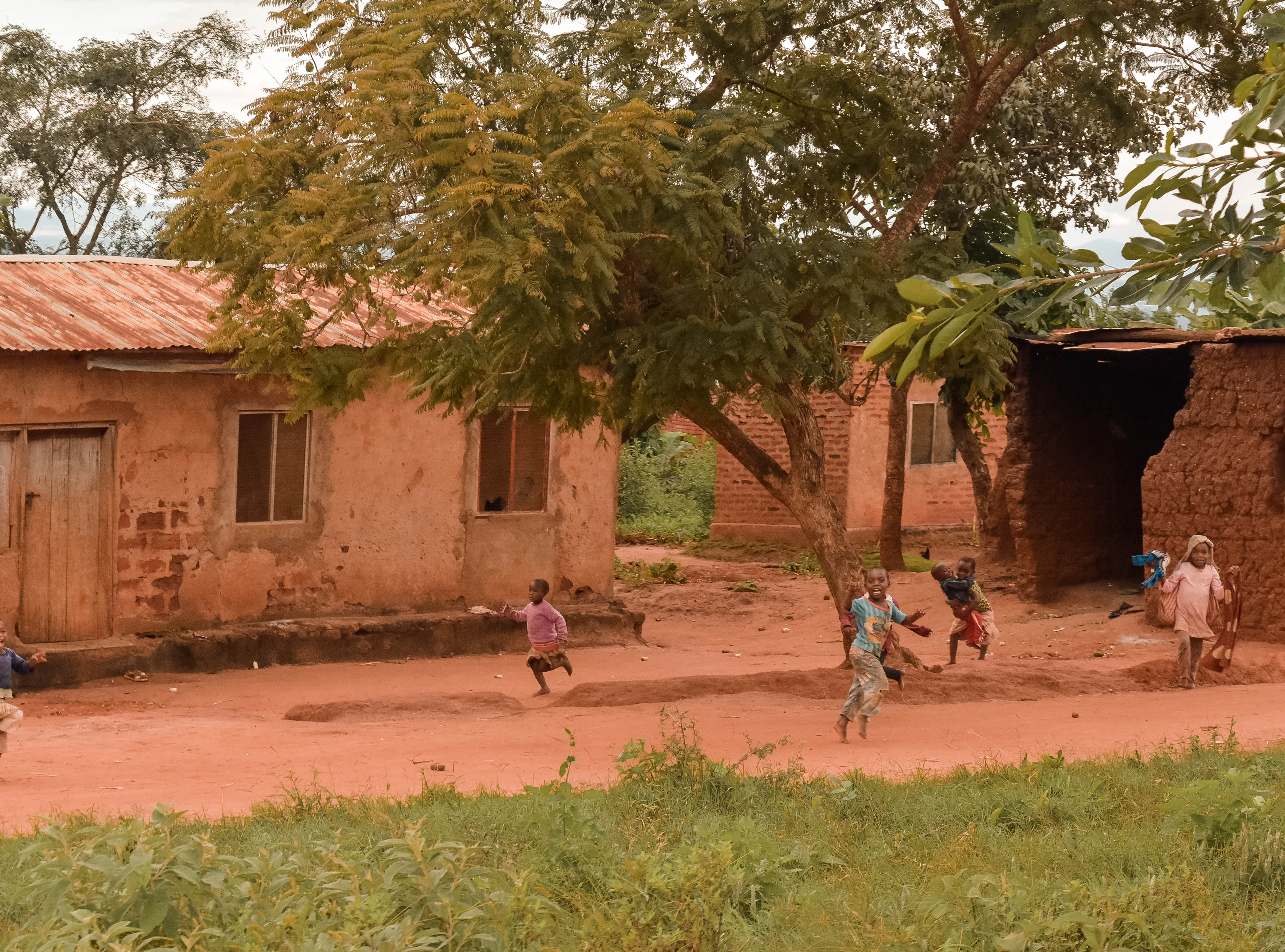 This is an image with the theme "Play" from: Tanzania